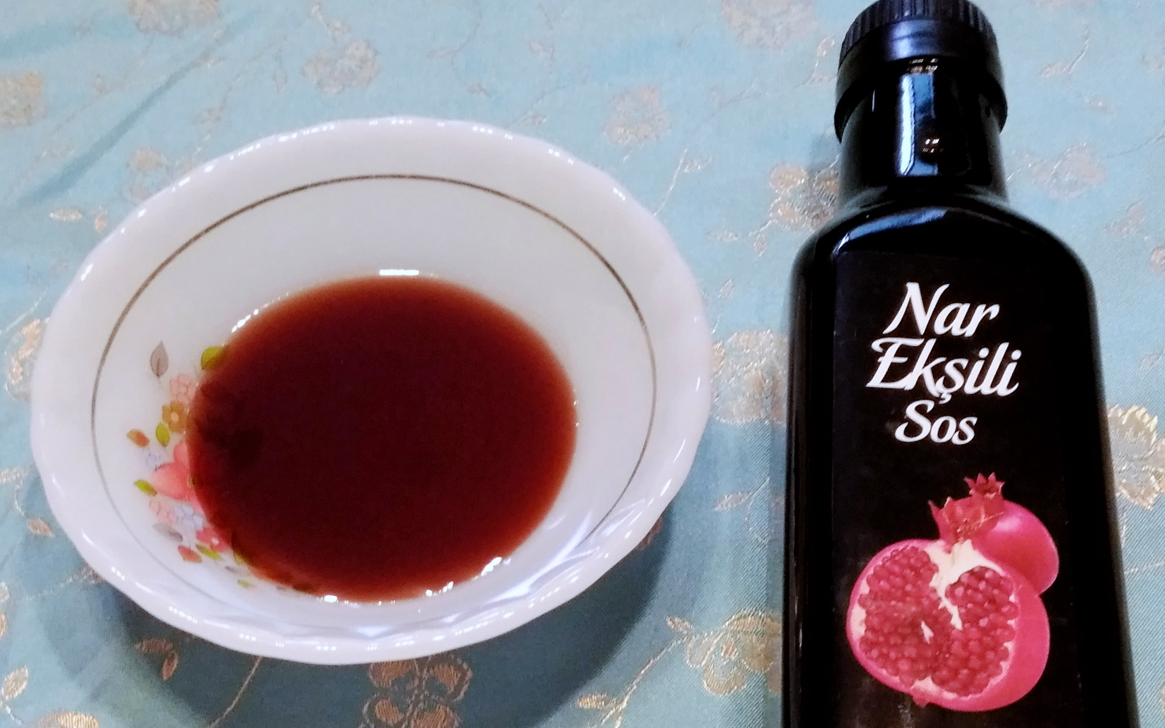 Nar ekşisi